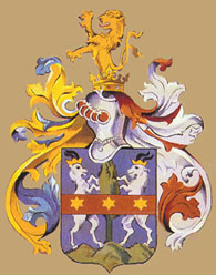 The coat of arms of Bulgarian Roman Catholic bishop and diplomat Petar Parchevich (1612-1674). From the Bulgarian Wikipedia. Created in the 17th century, public domain due to age.